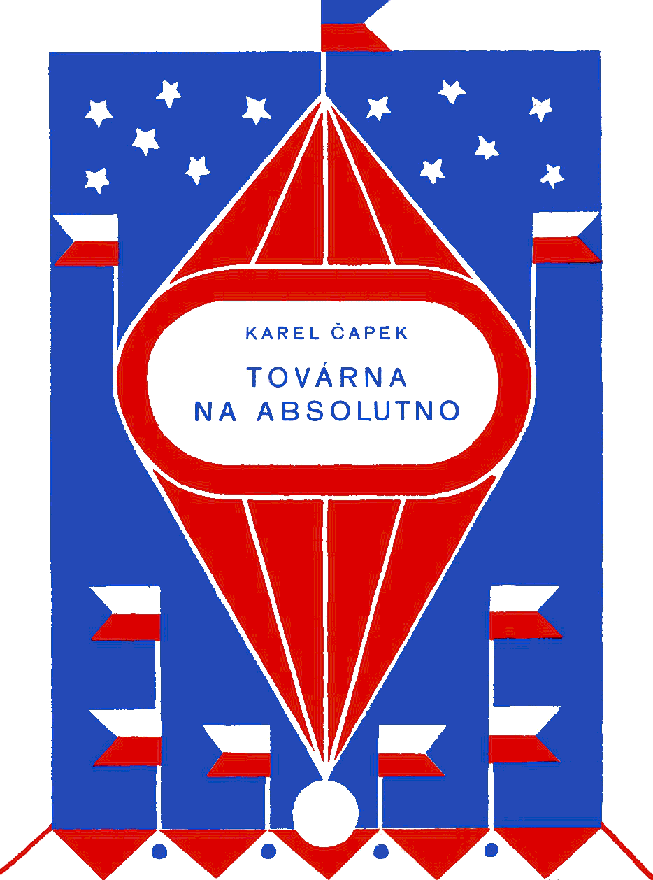 The book wrippers illustration, The Absolute at Large, written by Karel Čapek, illustrated by his brother Josef Čapek.